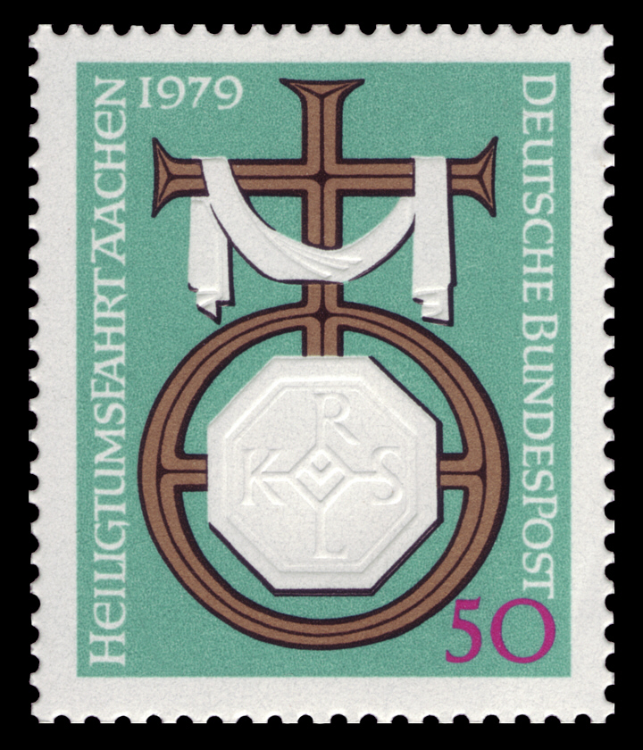 “Heiligtumsfahrt” Aachen